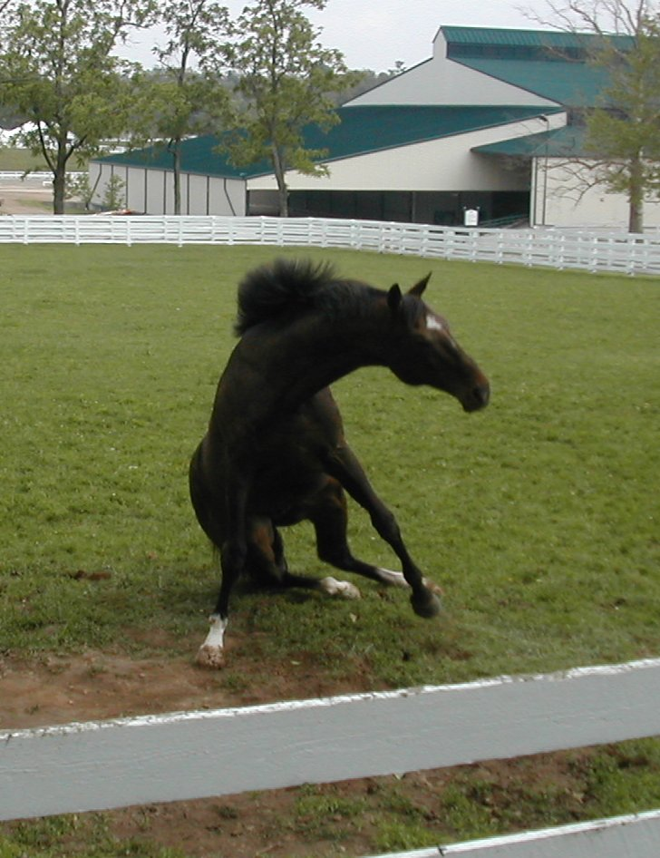 My photo, taken at Kentucky Horse Park, May 2006